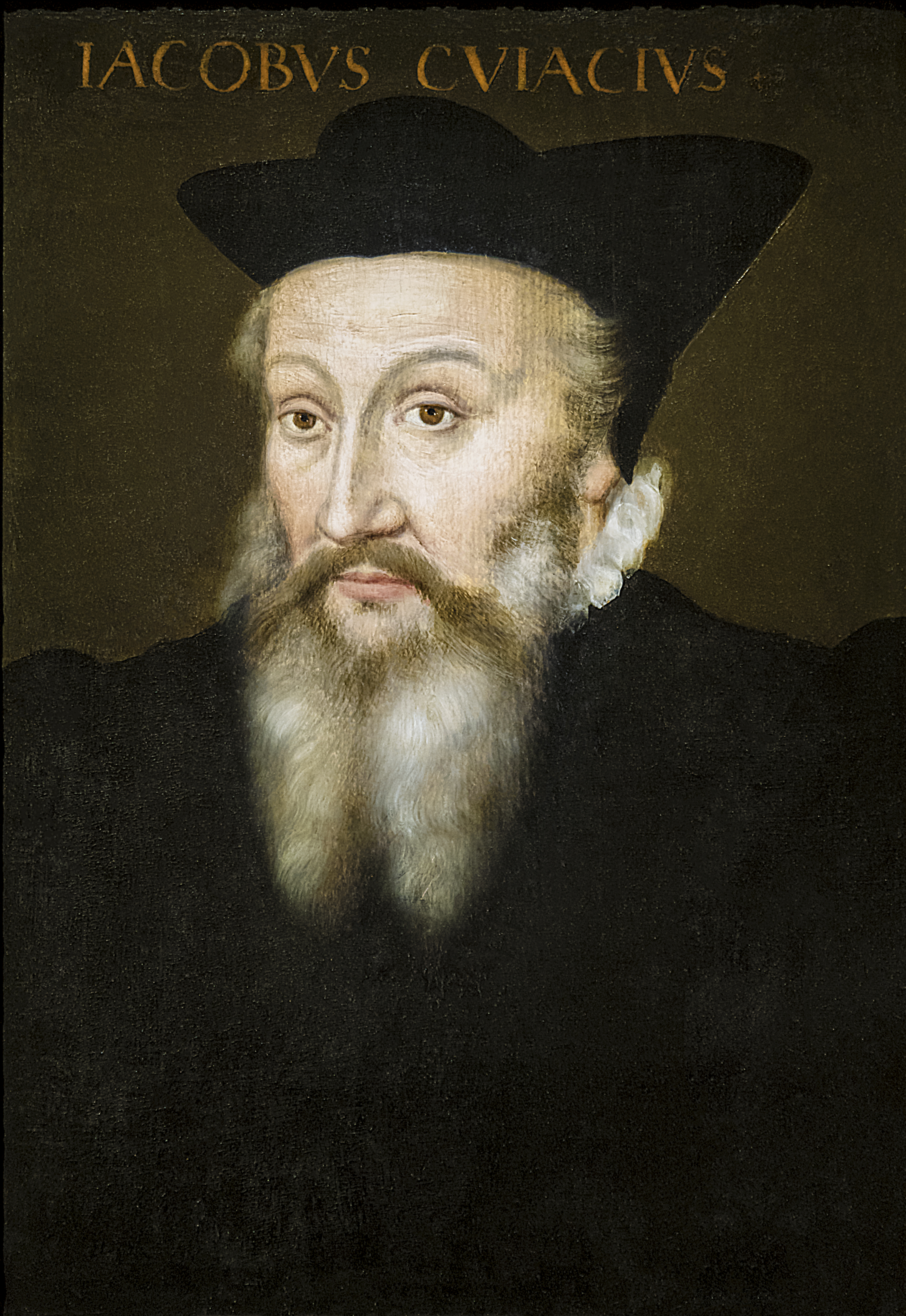 Depicted person: Jacques Cujas – French legal expert